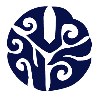 Logo of Navamintarrachinuthid School. The frist school of Thailand. ฺFor another branch of school under name Suankularb and any school which use the same logo